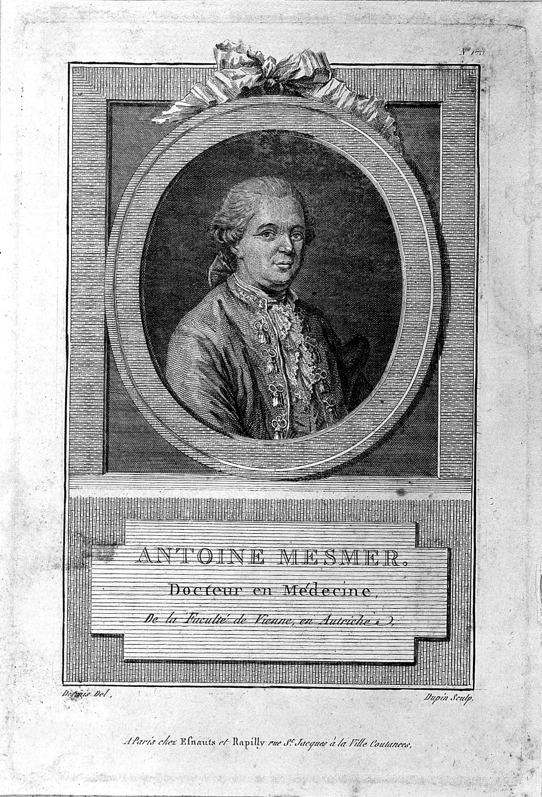 Franz Anton Mesmer. Engraving by Dupin after C.-L. Desrais. Iconographic Collections Keywords: brn 23327; mesmer franz anton; Franz Anton Mesmer; Claude-Louis Desrais; Jean-Victor Dupin